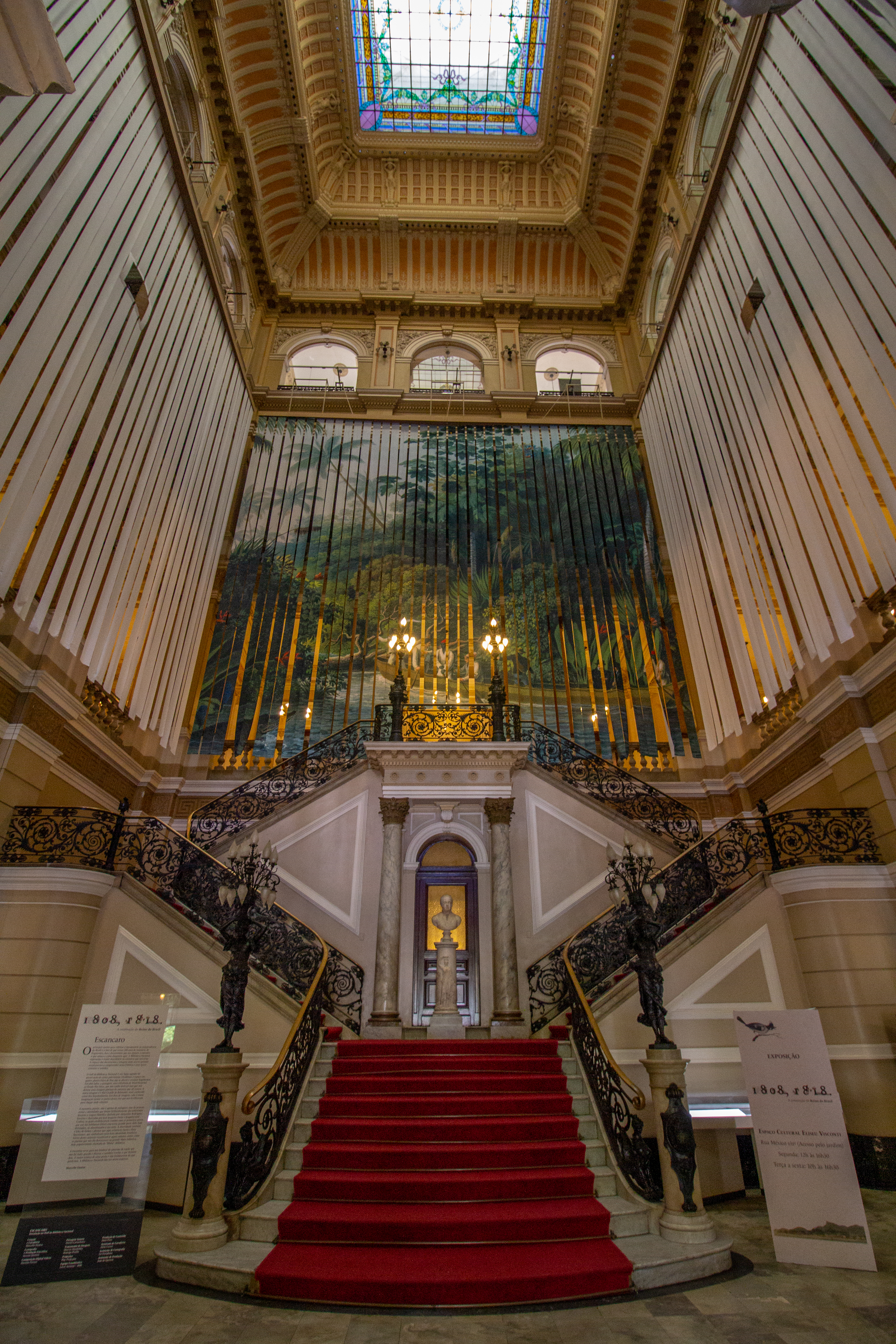 At Rio de Janeiro